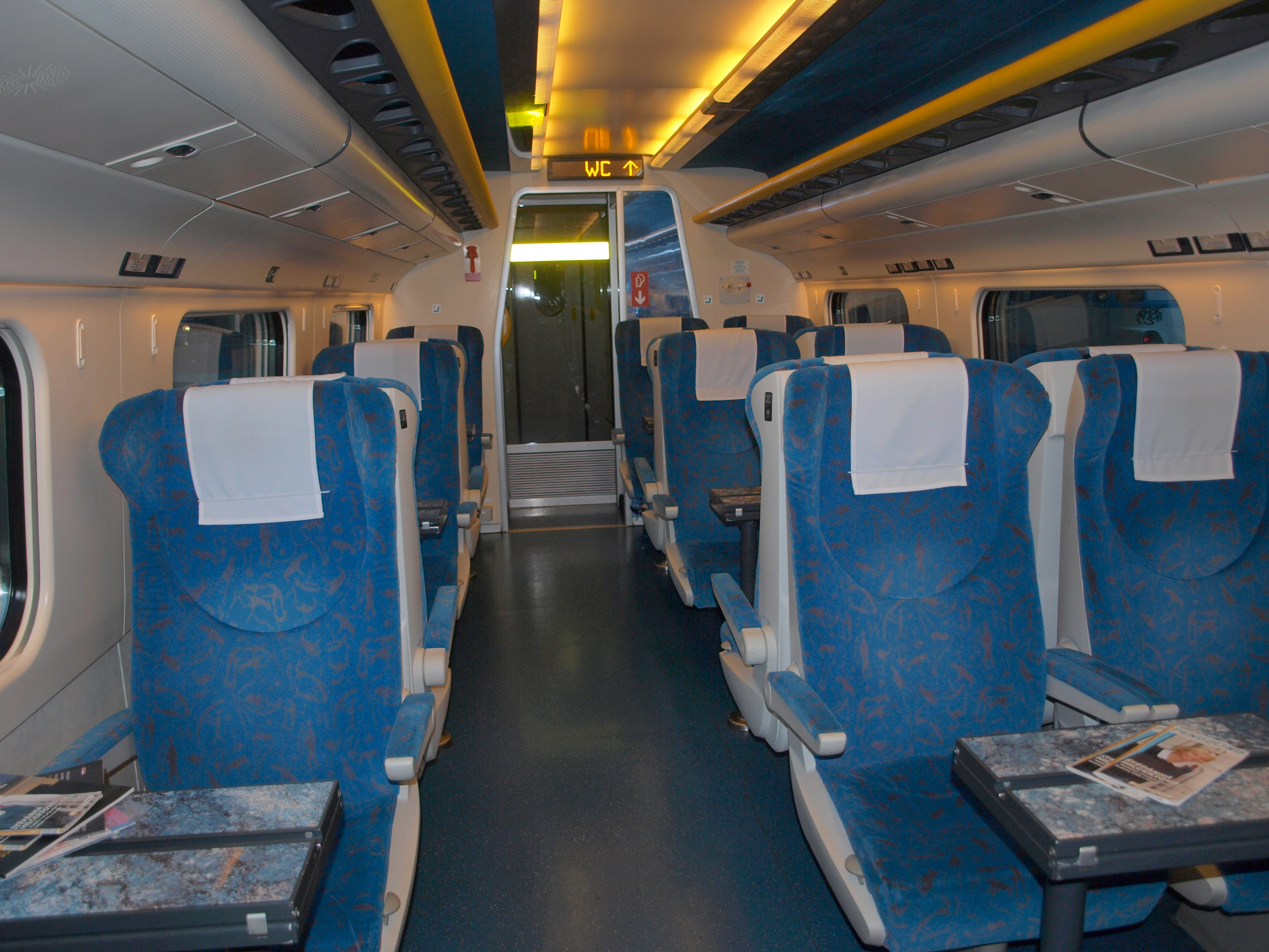 Interior of czech electric multiple unit Class 680